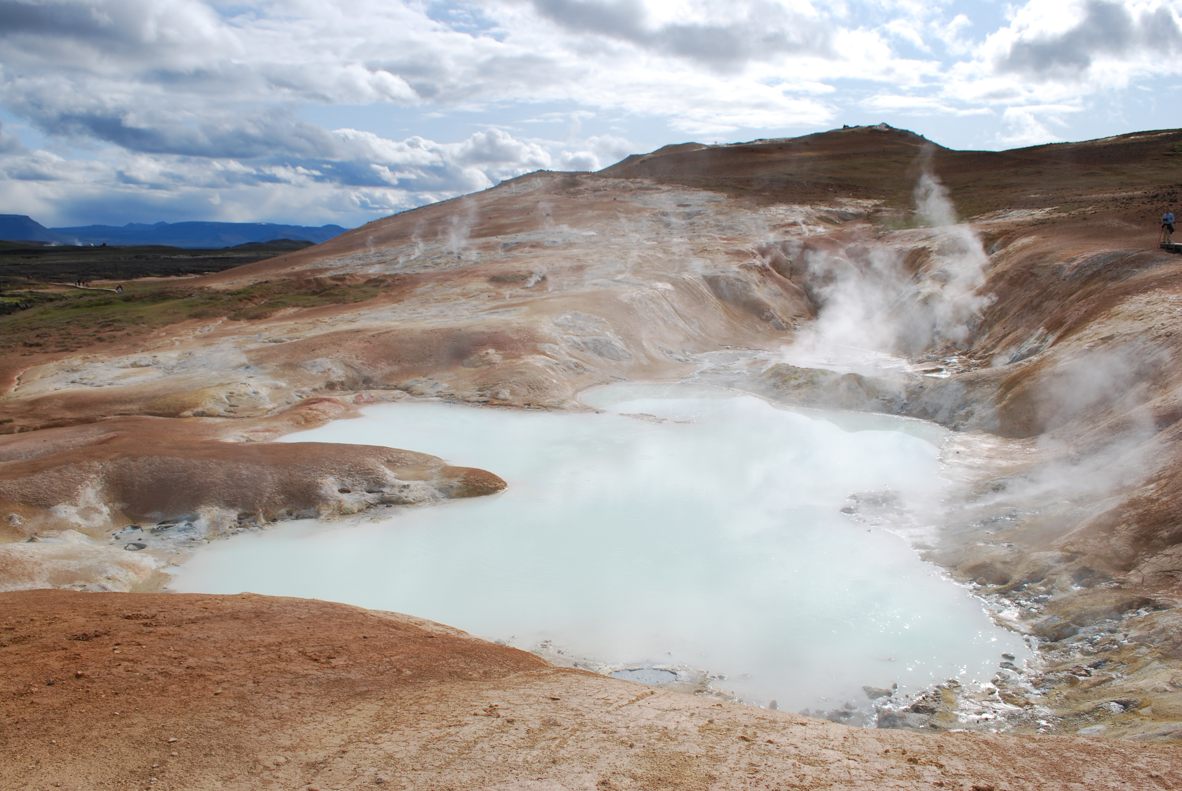 Leirhnjúkur area, Iceland